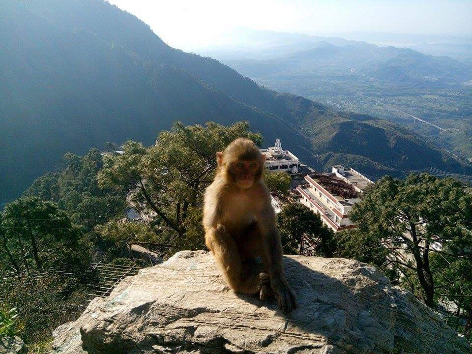 It's a Rhesus monkey sitting on a cliff on the way to Maa Vaishno Devi Temple, district Reading, Jammu and Kashmir,India